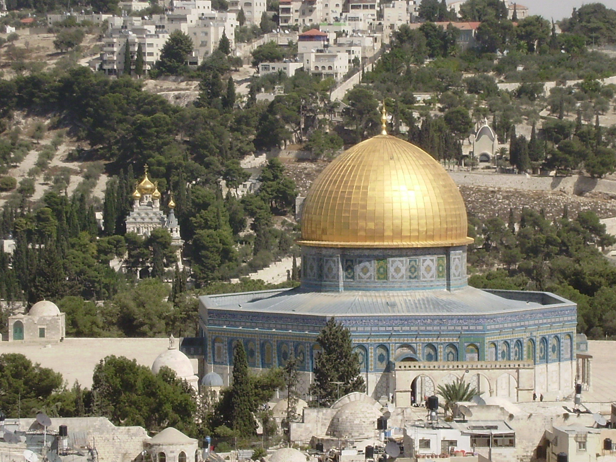 Dome of the rock, Jerusalem, Israel